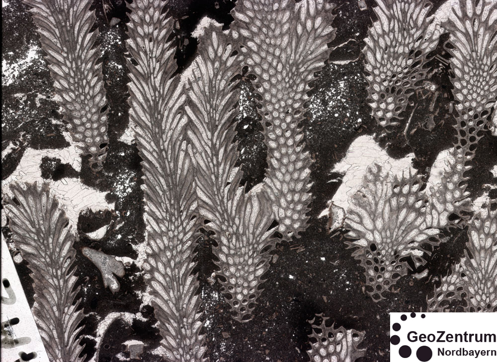 Bafflestone (Dunham-classification). Width of Picture is 34mm. Picture by courtesy of Axel Munnecke, Geozentrum Nordbayern